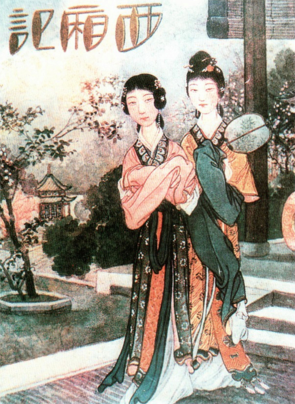 1927 Chinese movie poster for 1927 Chinese film Romance of the Western Chamber (traditional